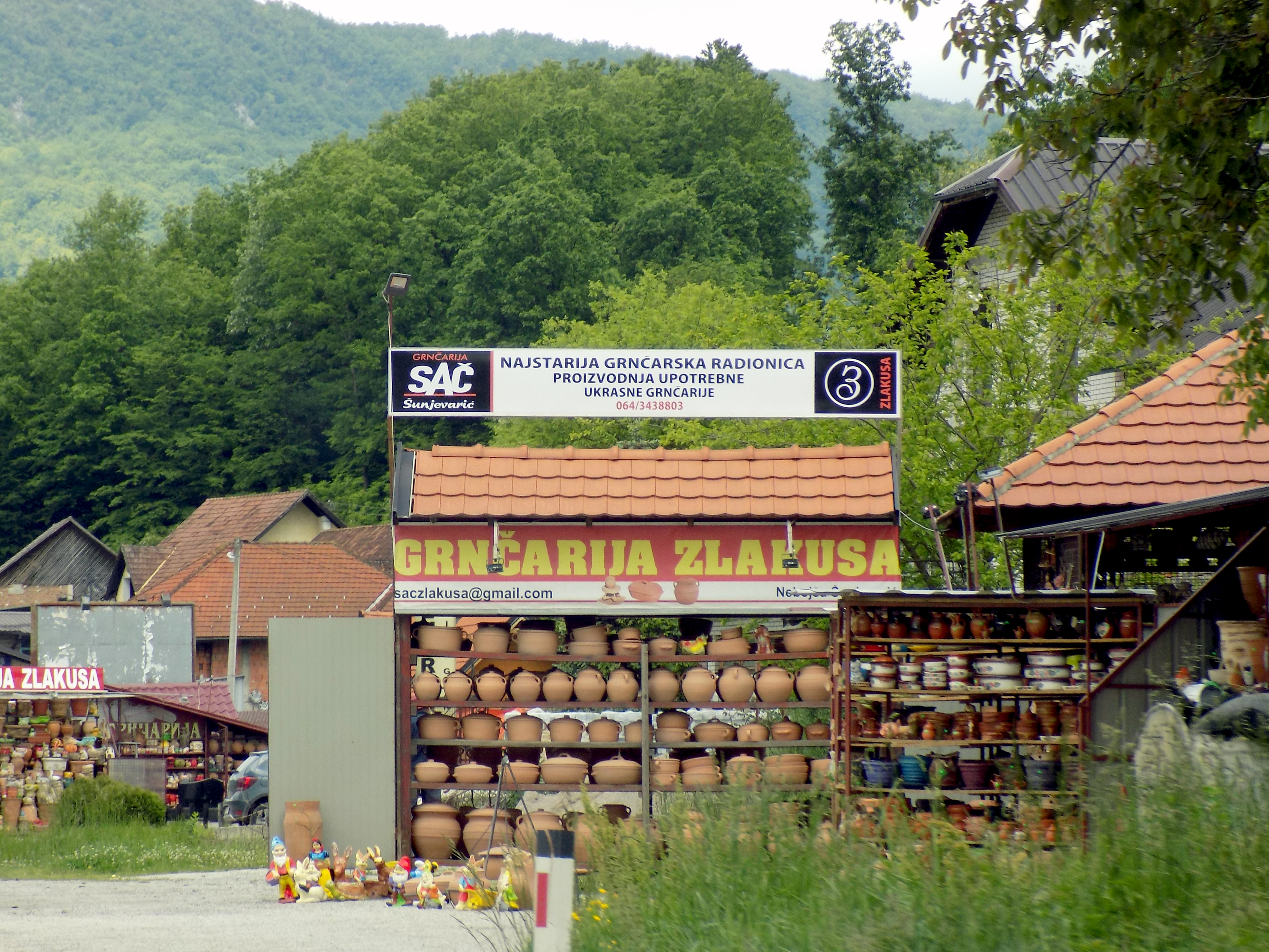 Stands for sale Zlakusa pottery along the State Road 22, commonly known as Ibar Highway